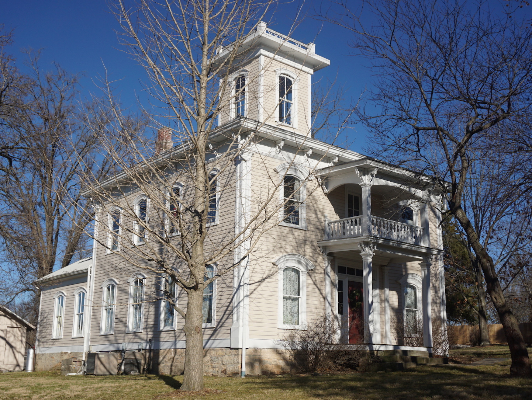 Bonebrake-McMurtrey House built 1881. Current home of the Bonebrake Center of Nature and History.